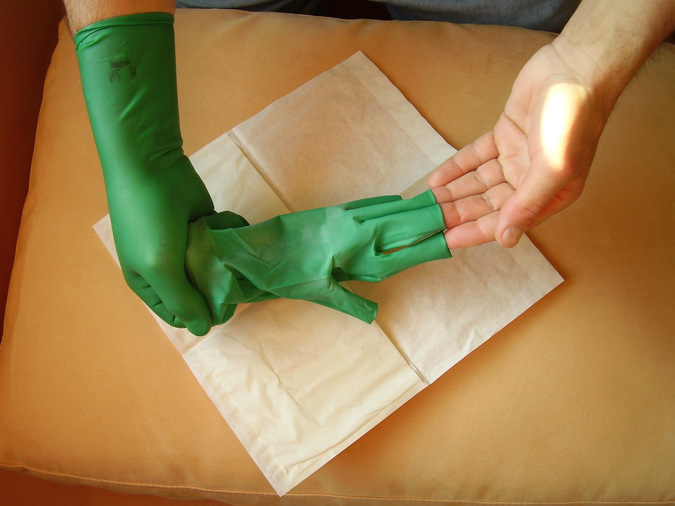 Disposable gloves; surgical gloves; chirurgische Handschuhe; steril; Latexhandschuhe